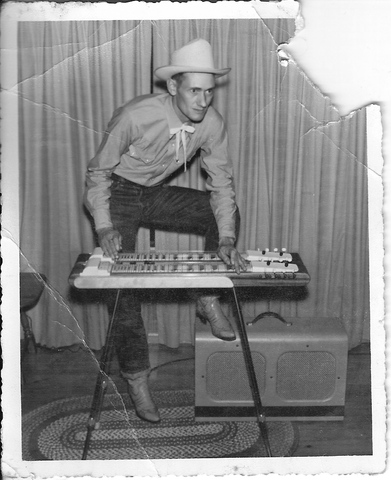 This was taken at a unknown date. I was able to get this from Harmon Davis's only son Clark Davis who is also a radio DJ. Harmon Davis Harmon C. Davis grew up in rural Oklahoma. His family was always musically inclined, so he naturally learned how to play the guitar at a young age in his life. Later on, he learned to play the steel guitar, and mastered the instrument. He played in his brothers bluegrass band, Olen and The Bluegrass Traveler's, every weekend on his radio station, KCES FM. Harmon Davis had the first radio station in Southeastern Oklahoma. It was KCES FM. The station survived from the mid fifties until about 1999 when he sold the station to KFOX FM. The radio station was very important to the small town and was the Lake Eufaula Giant, the voice could be heard all over Lake Eufaula by turning into the station 102.3.